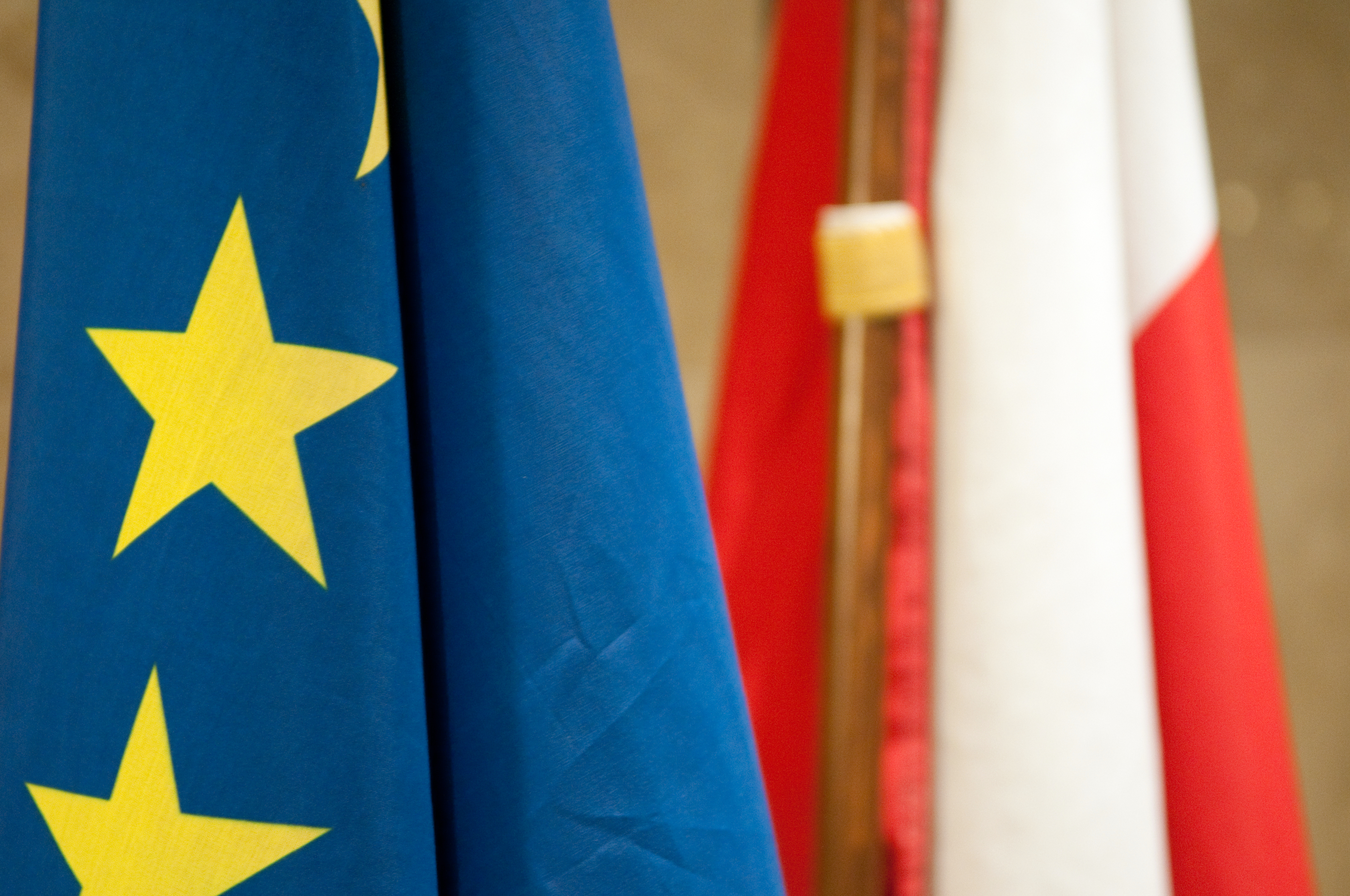 Flags of Poland and the EU